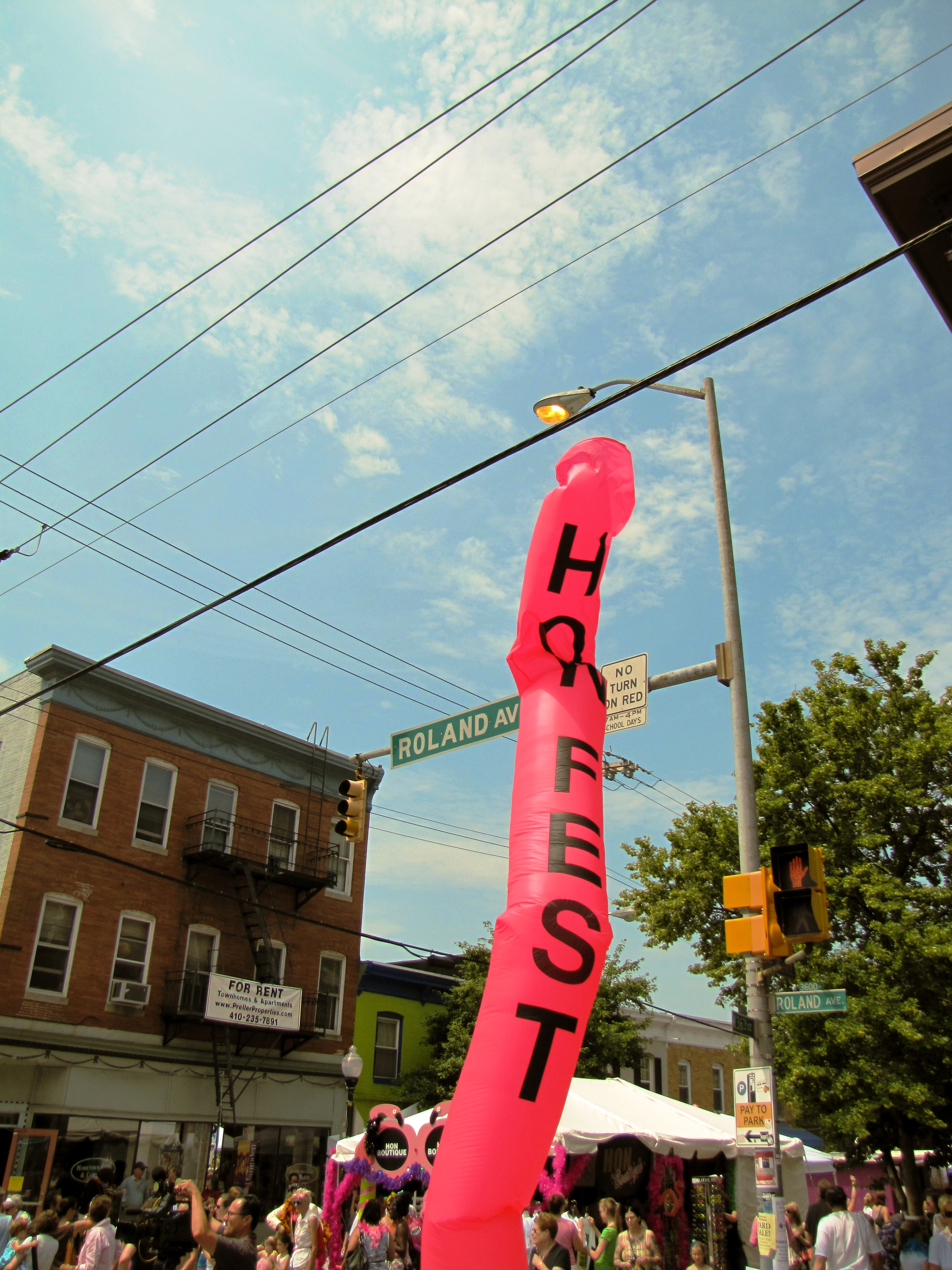 2010 HonFest, a celebration of 1960s Baltermorese style held annually in the Hampden neighborhood of Baltimore, Maryland.